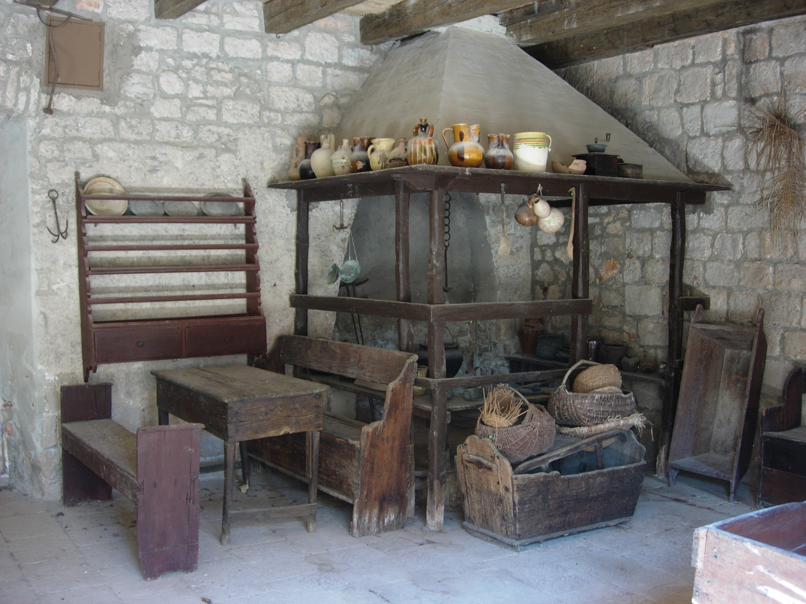 Dalmatian kitchen in the house of poet Petar Hektorović, Tvrdalj.